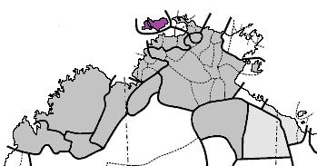 Map of the Northern Territory of Australia showing language borders with Tiwi shaded in red. Also shows larger map of Australian mainland indicating location of inset map.